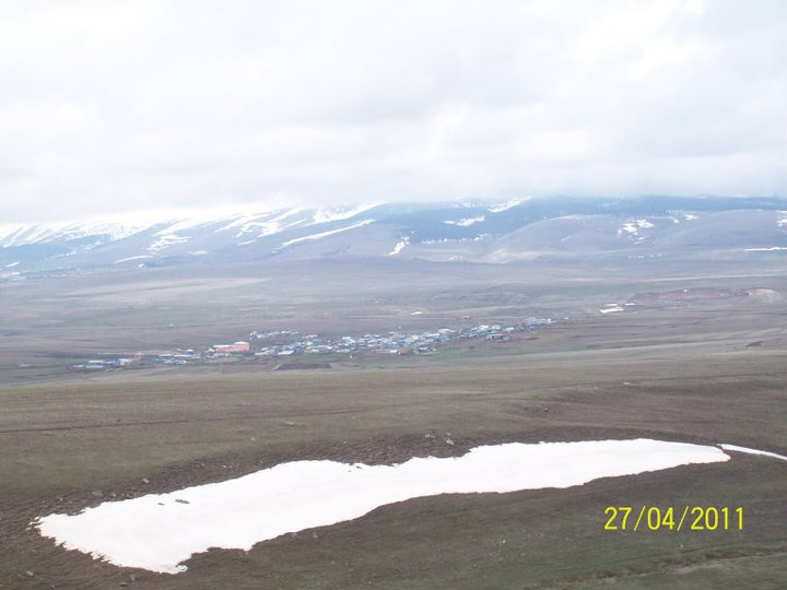 A former Caucasus Greek village - Alisofou Koyu today